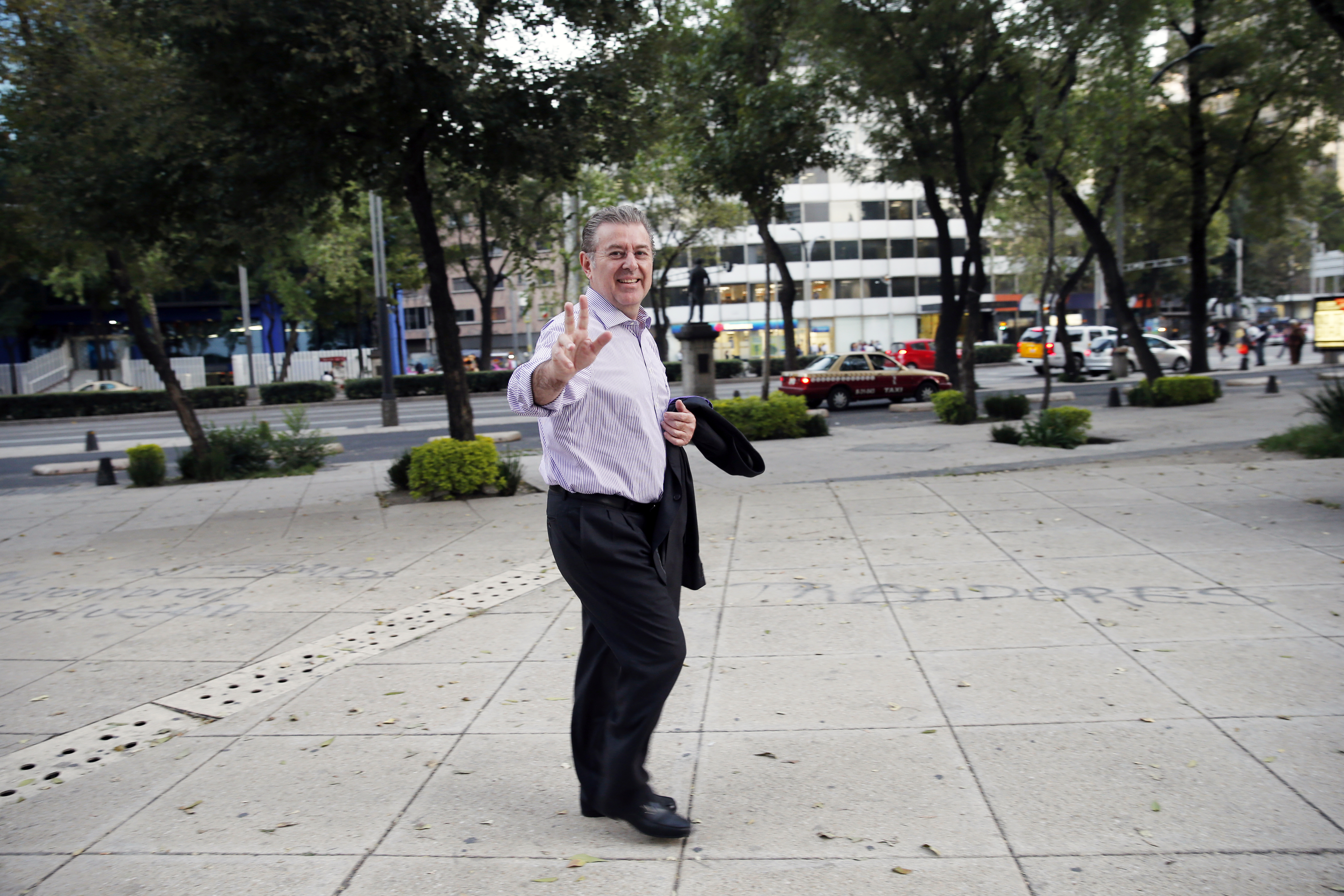 FRANCISCO BURQUEZ